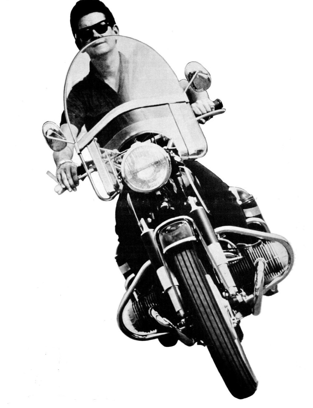 Photo of Roy Orbison on a motorcycle from an ad for his new MGM releases in 1965.